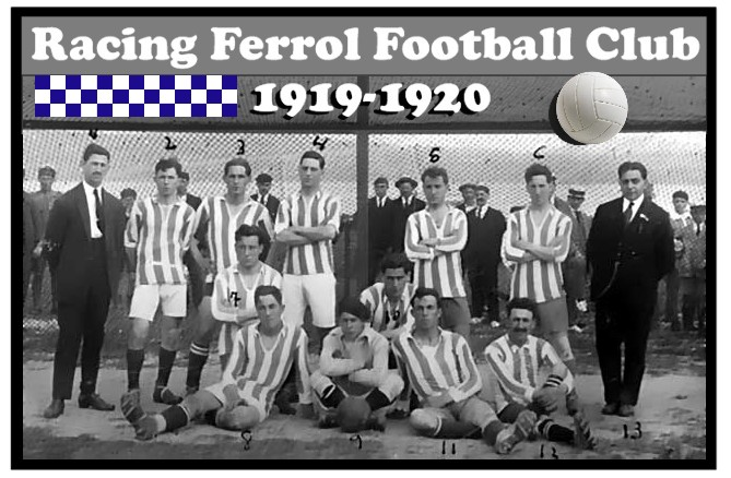 Racing Ferrol Football Club team season 1919-1920.